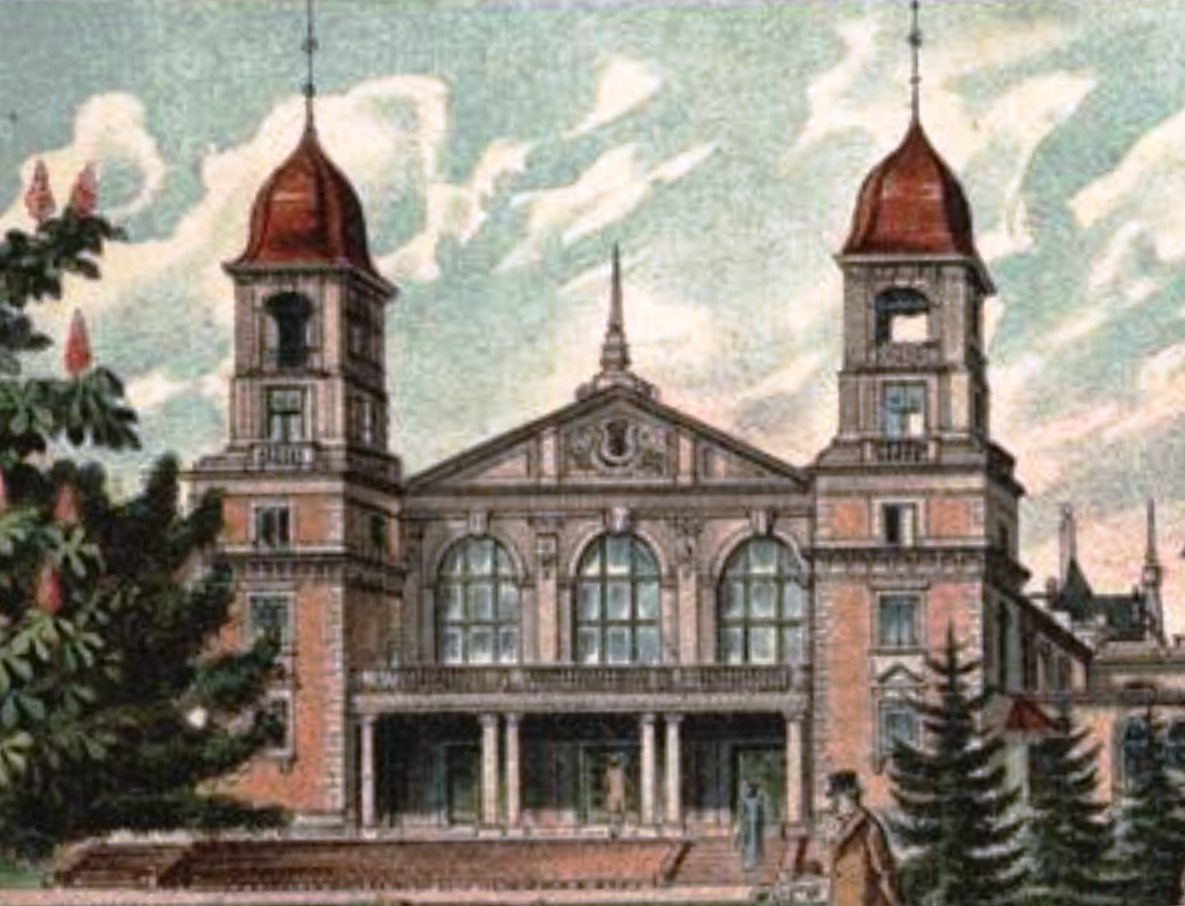 Pforzheim, Saalbau, Blick vom Stadtgarten, Entwurf Stadtbaumeister Alfons Kern, erbaut 1897-1900, eingeweiht am 20. Mai 1900, zerstört Heiligabend 1944 (Zeichnung).png